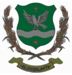 Coat of arms of Hejőszalonta, Hungary